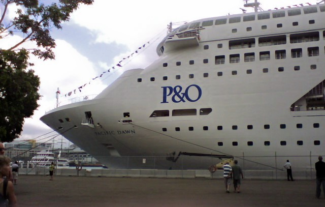 The Pacific Dawn, Alongside, Wharf 8, Darling Harbour, Sydney, Australia.